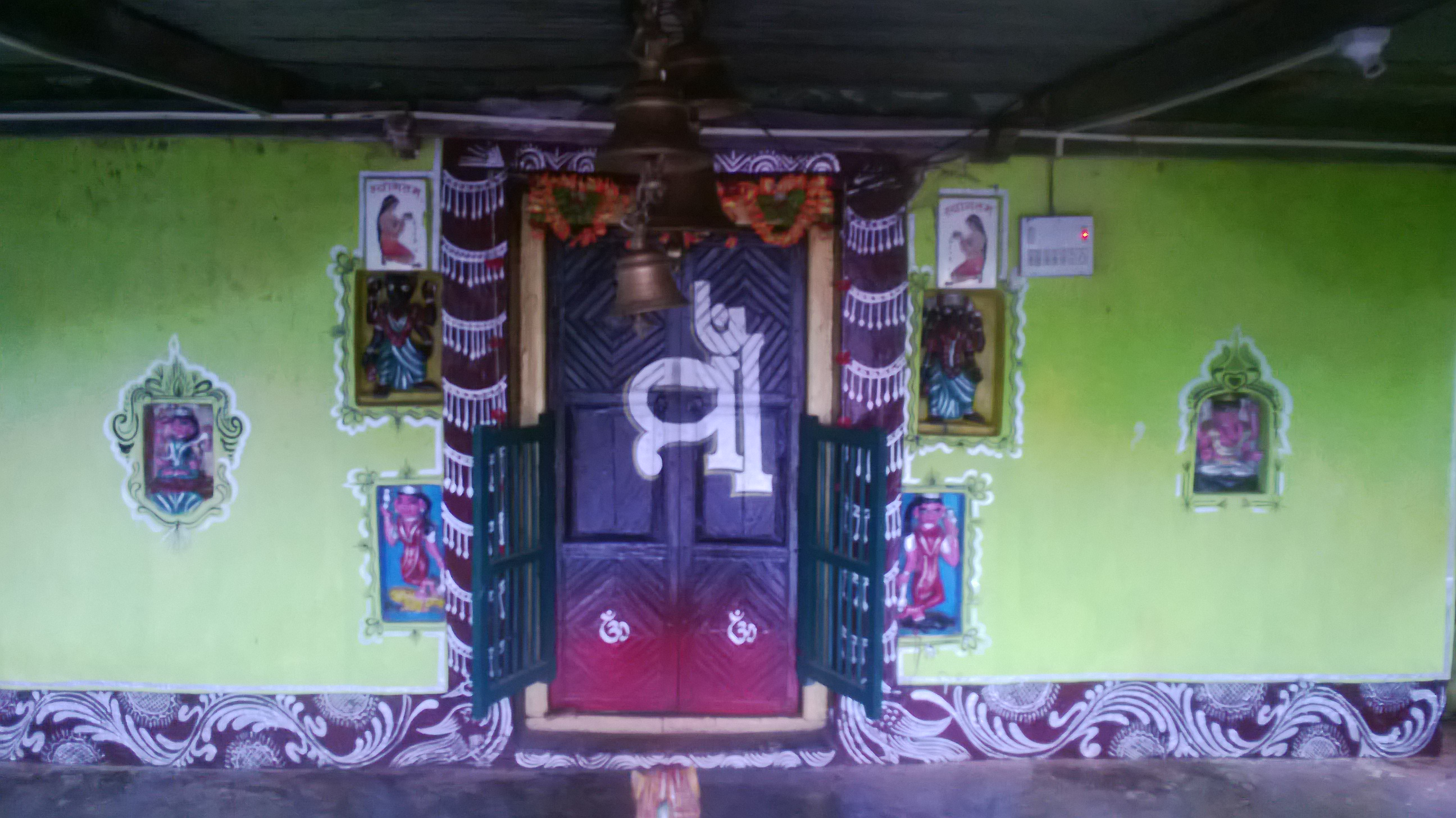 Maa Manikeshwari Mandir, Th. Rampur